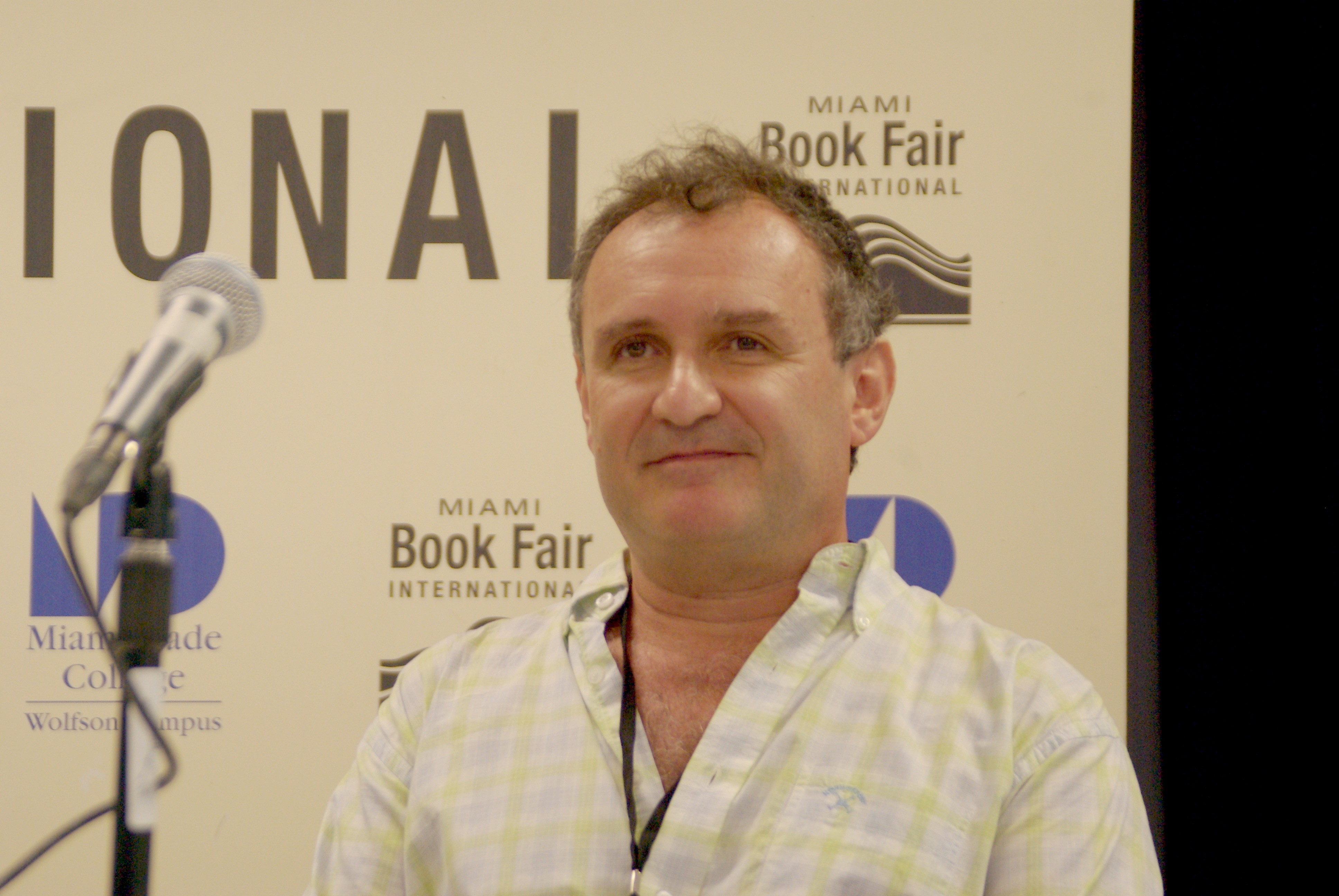 Argentinean writer Gustavo Nielsen at the Miami Book Fair International 2011